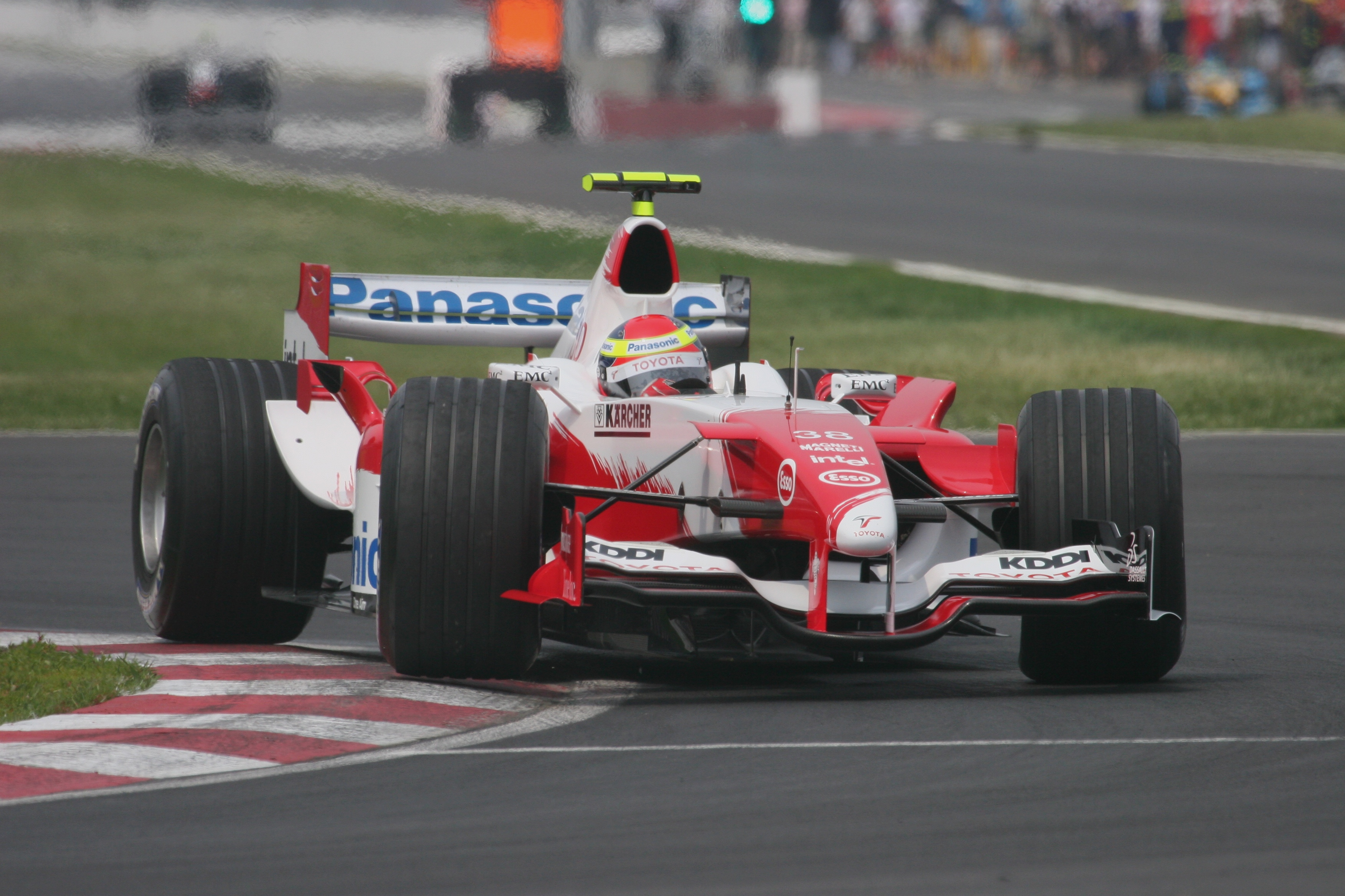 Ricardo Zonta driving for Toyota F1 at the 2005 Canadian Grand Prix.